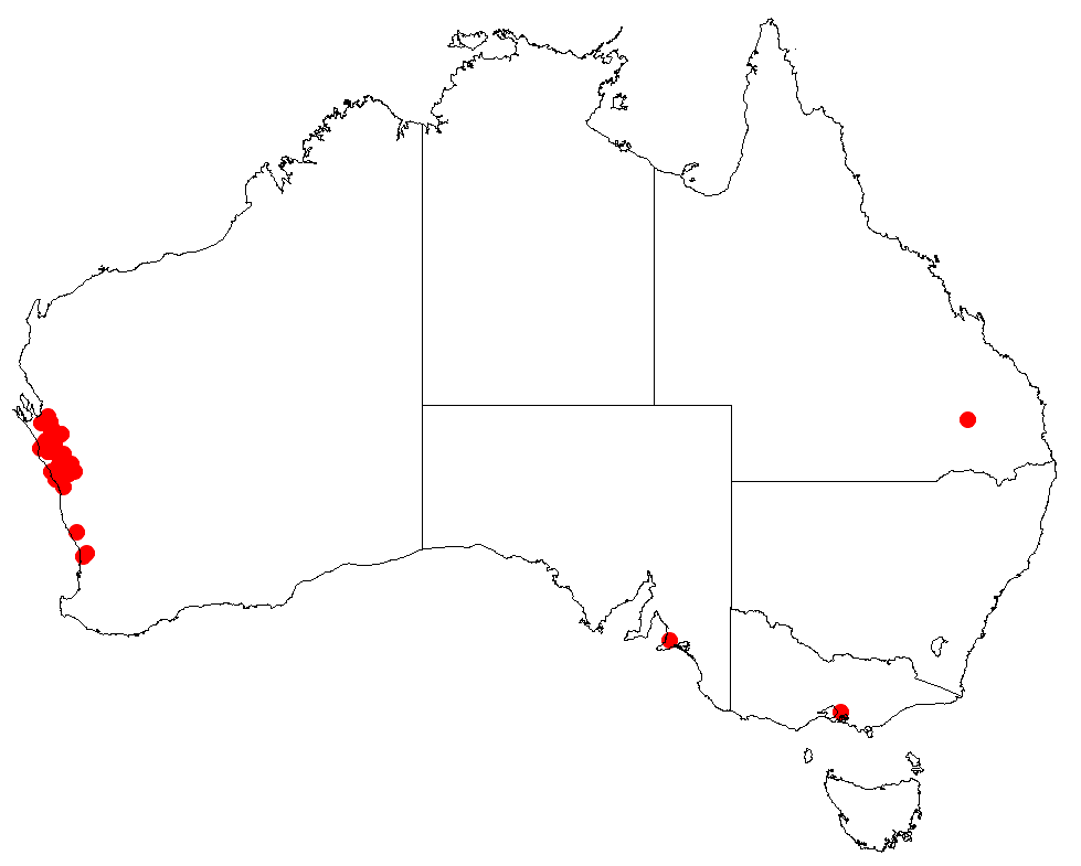 Hakea bucculenta Occurrence data downloaded from Australasian Virtual Herbarium on 22 November 2018 using